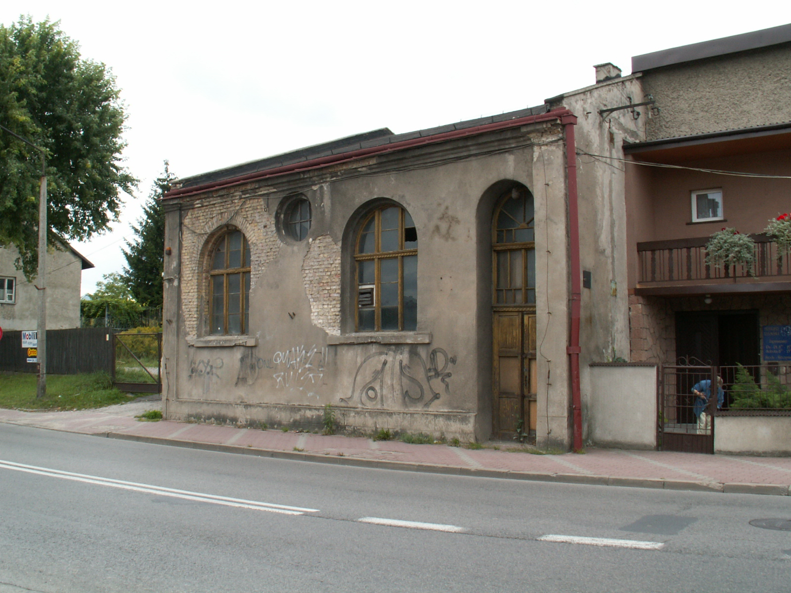 Merchants Synagogue in Trzebinia